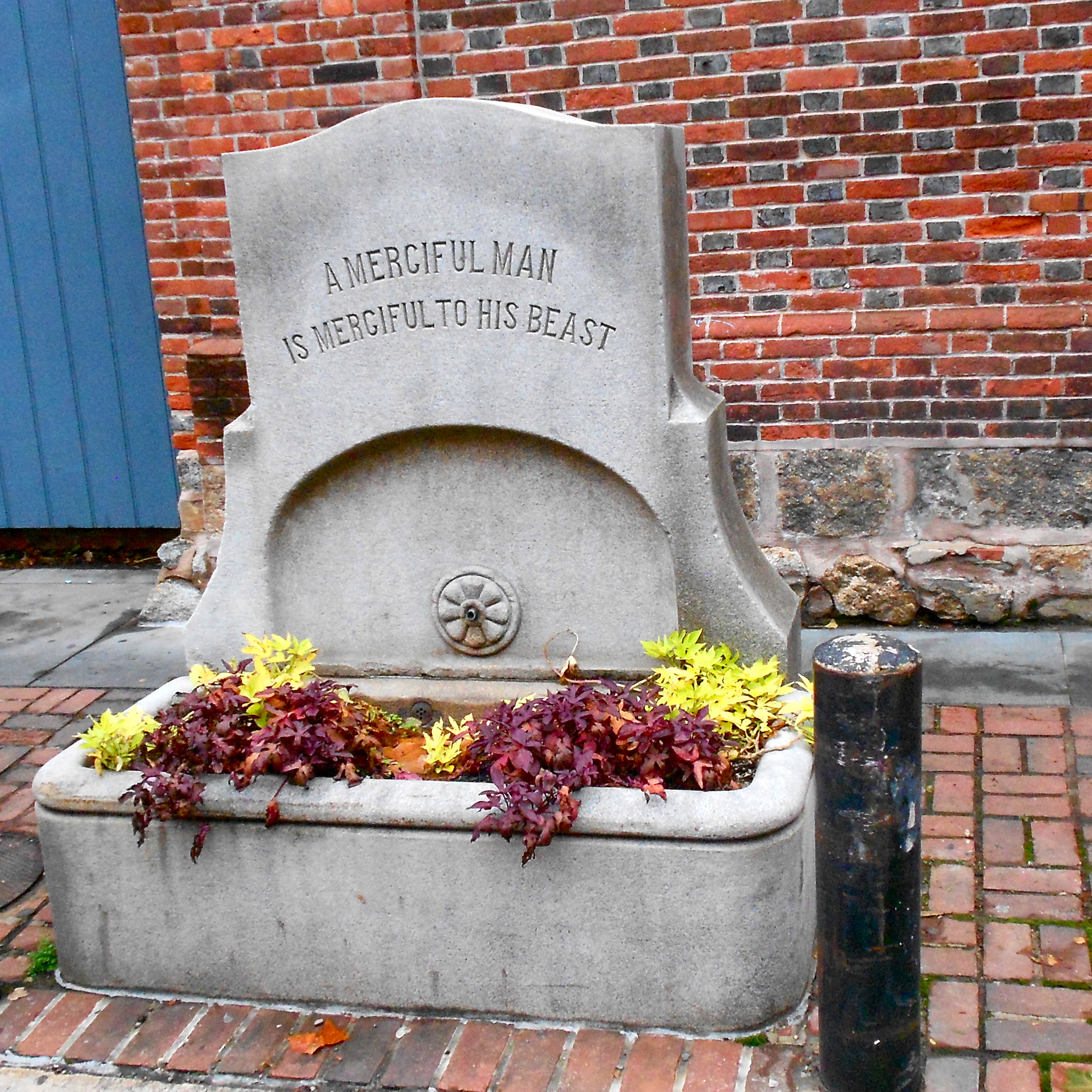 Water trough on 9th Street in Philadelphia, near Pennsylvania Hospital